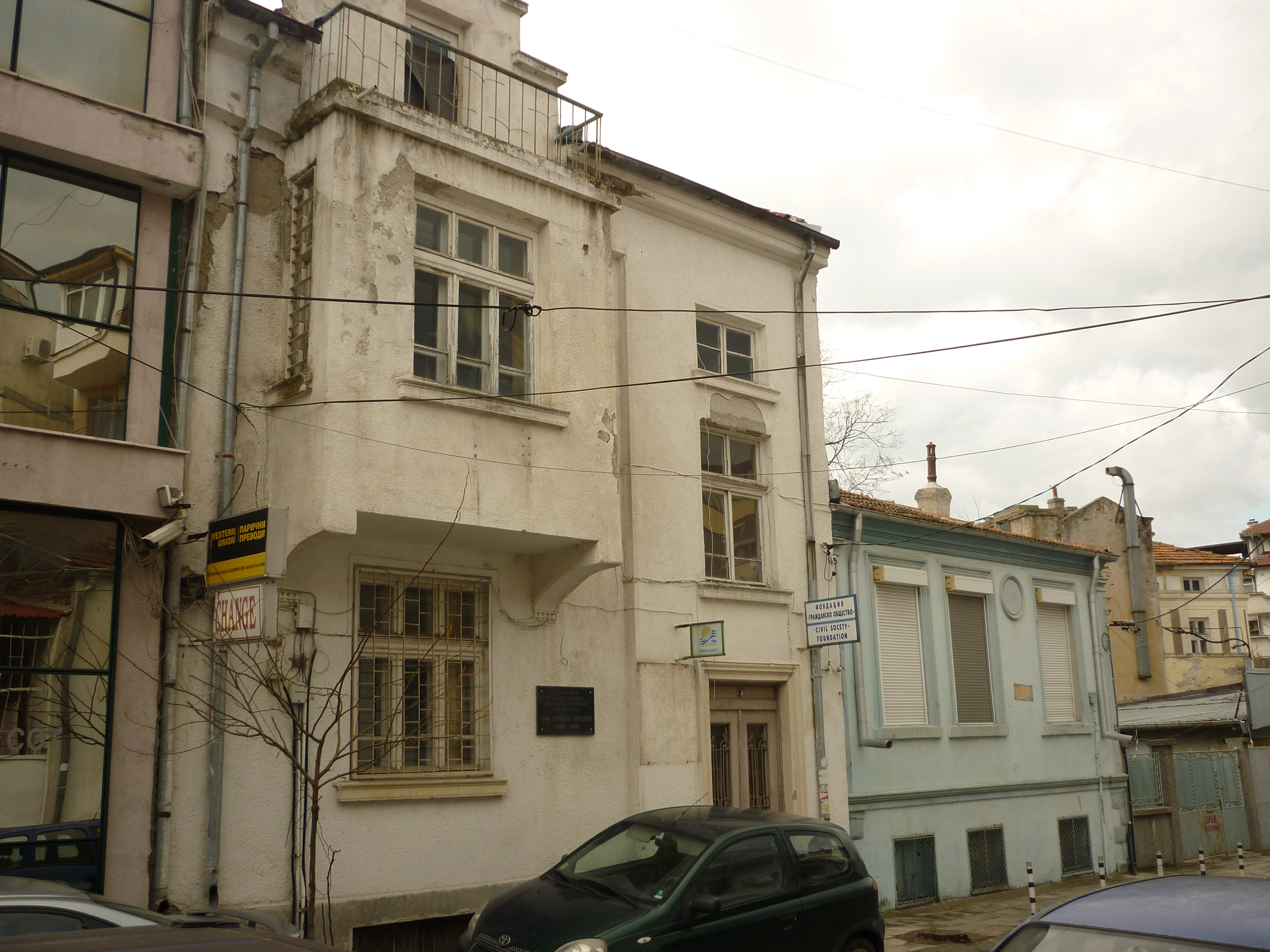 The native home of Dimitar Avramov, Maritime Street 28 in Burgas